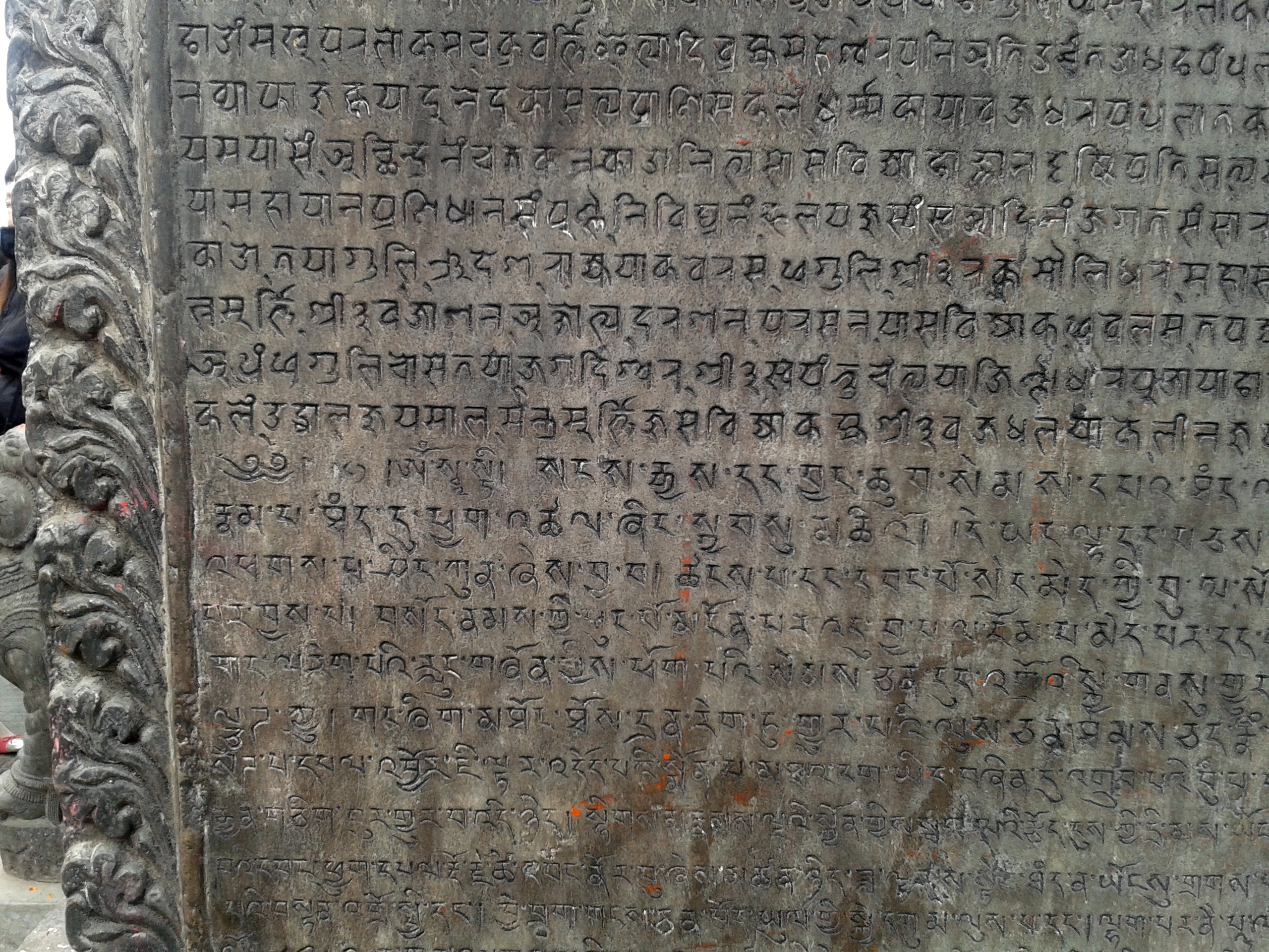 Detail of stone inscription in Nepal Bhasa and Tibetan languages at Swayambhu, Kathmandu recording the renovation of the stupa during the years 1751-1758.